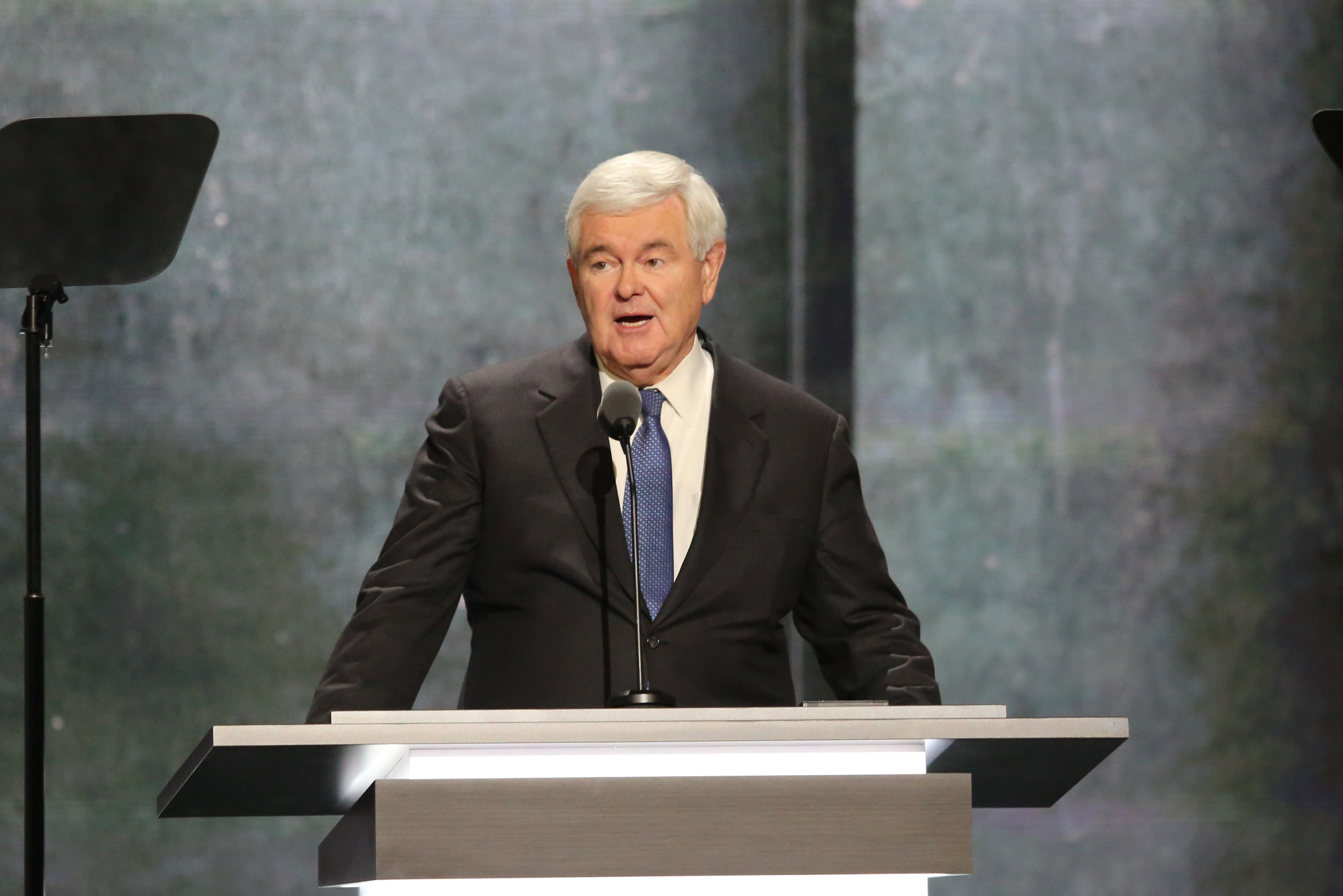 Former House Speaker Newt Gingrich delivers a speech at the Republican National Convention in Cleveland, Ohio on July 20, 2016. (Photo: Ali Shaker / VOA)